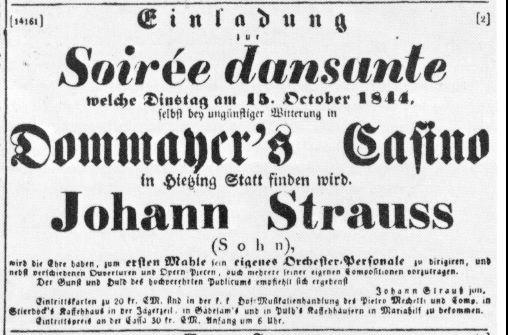 An 1844 poster advertising the debut of Johann Strauss Jr at Dommayer's Casino in Hietzing, Vienna